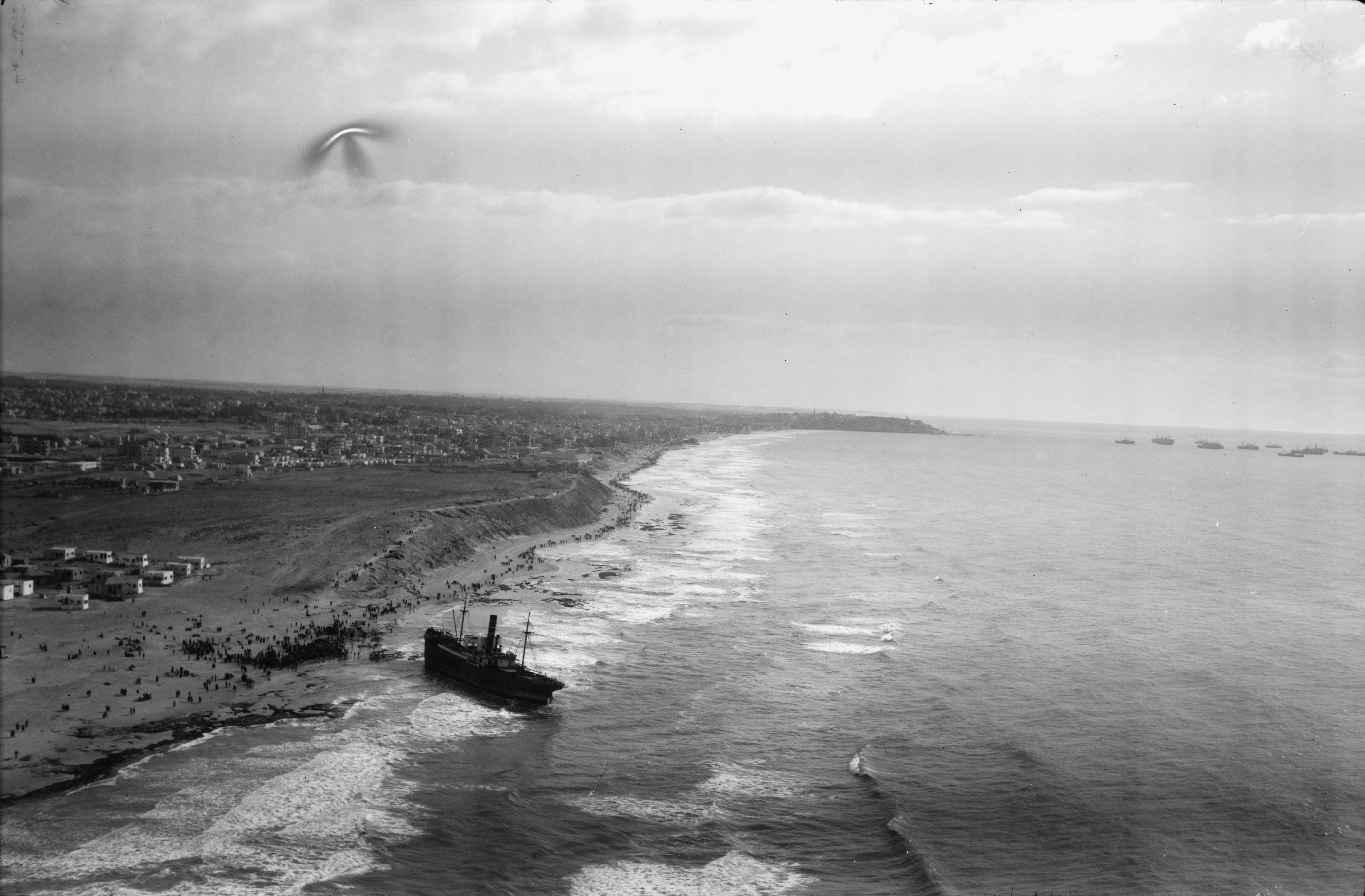 Title: Air views of Palestine. Jaffa, Auji River and Levant Fair. Effective marine scene. Looking south along the coast Abstract/medium: G. Eric and Edith Matson Photograph Collection Physical description: 1 negative